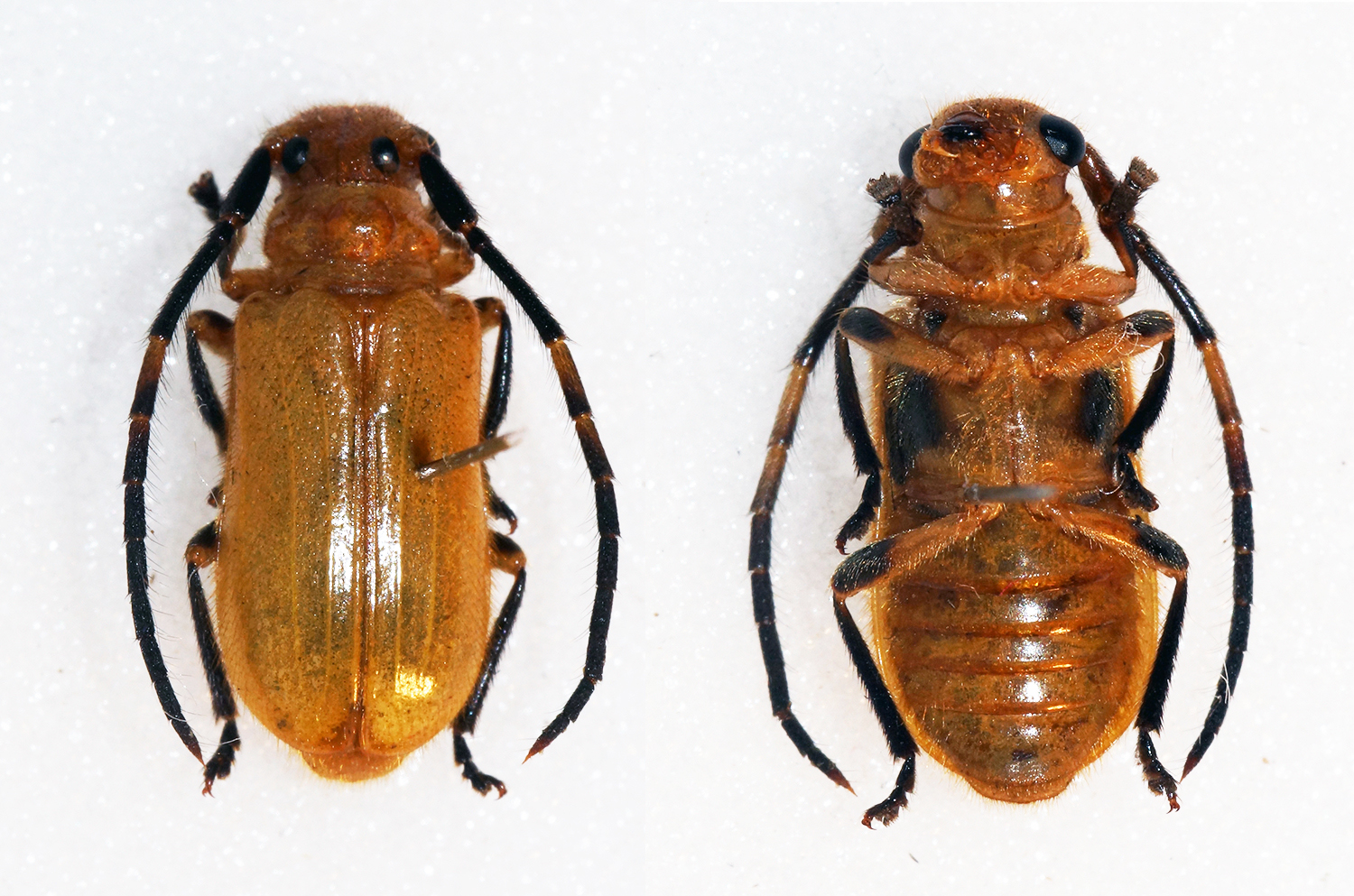 Cerambycidae